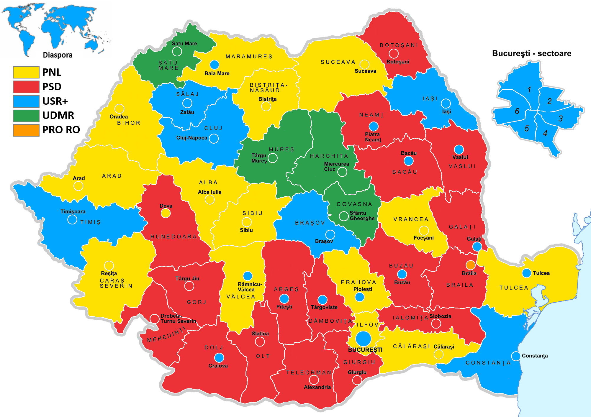 Map of the romanian european elections 2019 based on the winning party in each county, county residence and romanian diaspora PNL PSD USR+PLUS UDMR PRO romania